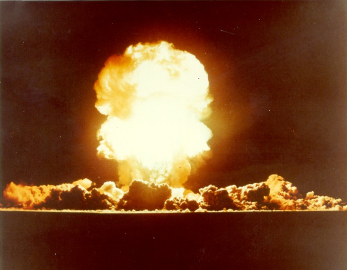 PLUMBBOB/WILSON - 06/18/57 - The fireball from the WILSON Event, 4:45 a.m. PDT, June 18, 1957, Yucca Flat, was photographed from a distance of about five miles, within seconds after detonation.